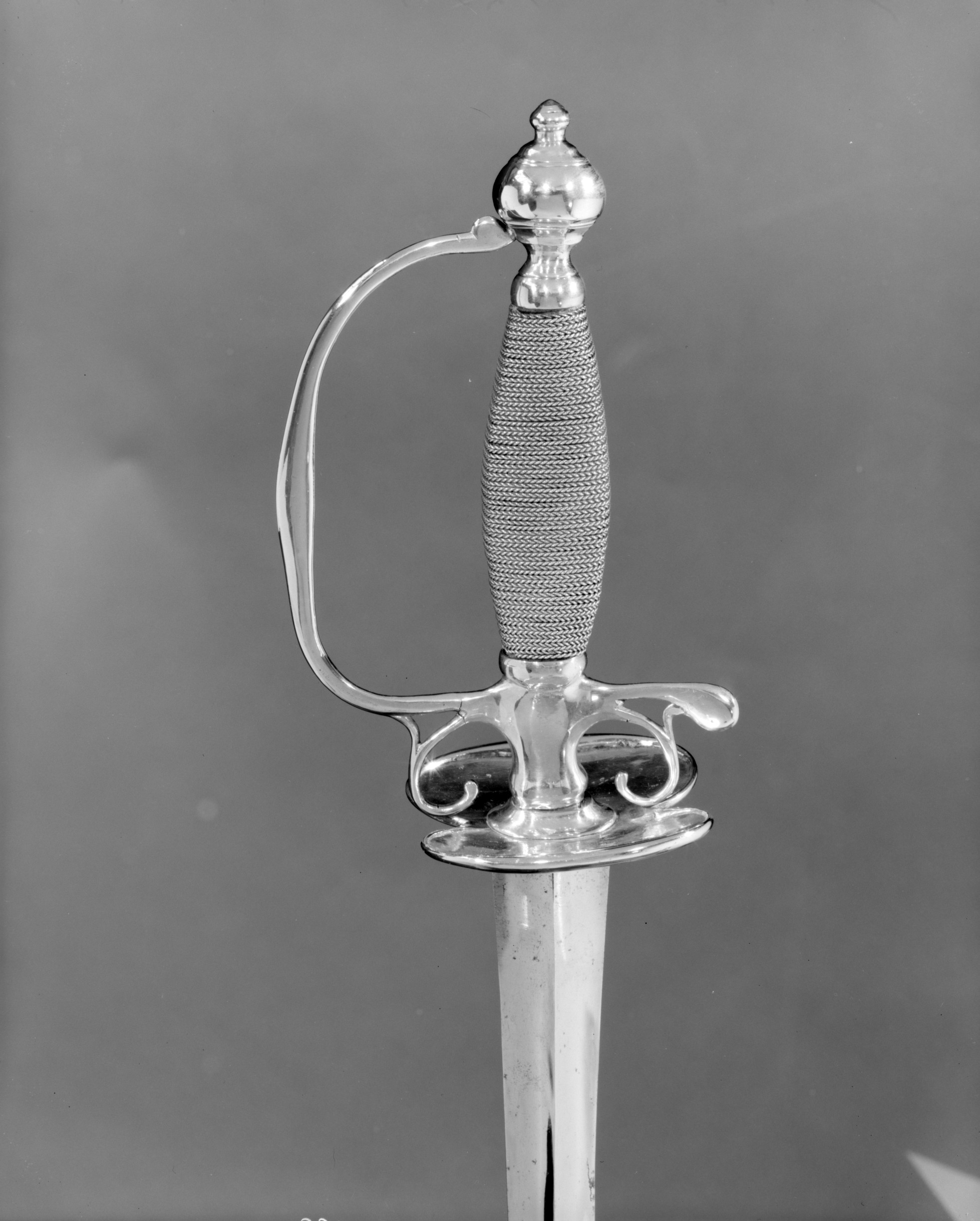 American; Sheath; Silver